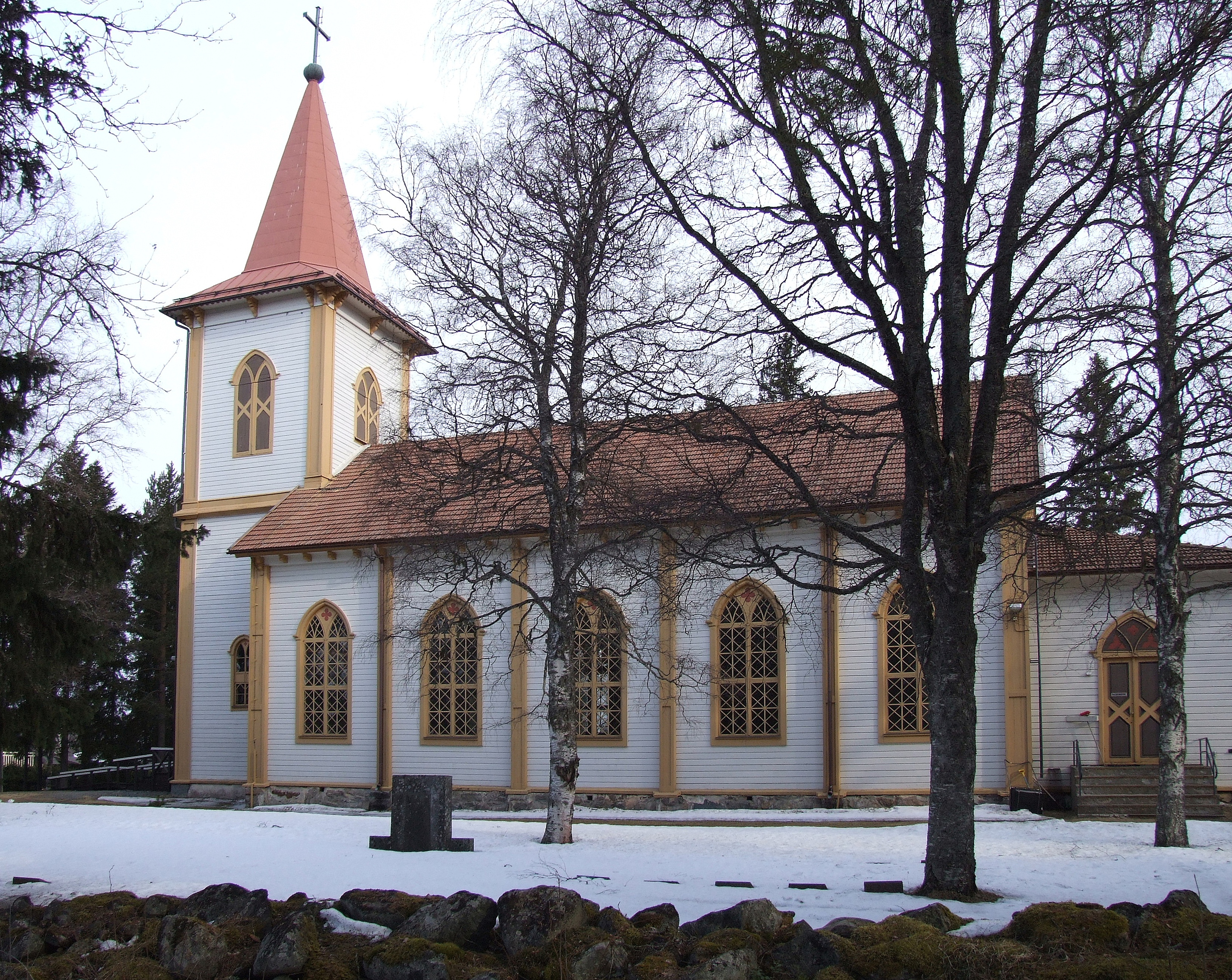 The Kuivaniemi Church.